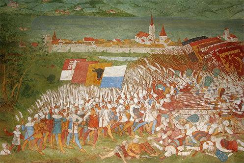 The battle of Sempach, 9. July 1386, Fresco in a chapel in Sempach, Switzerland